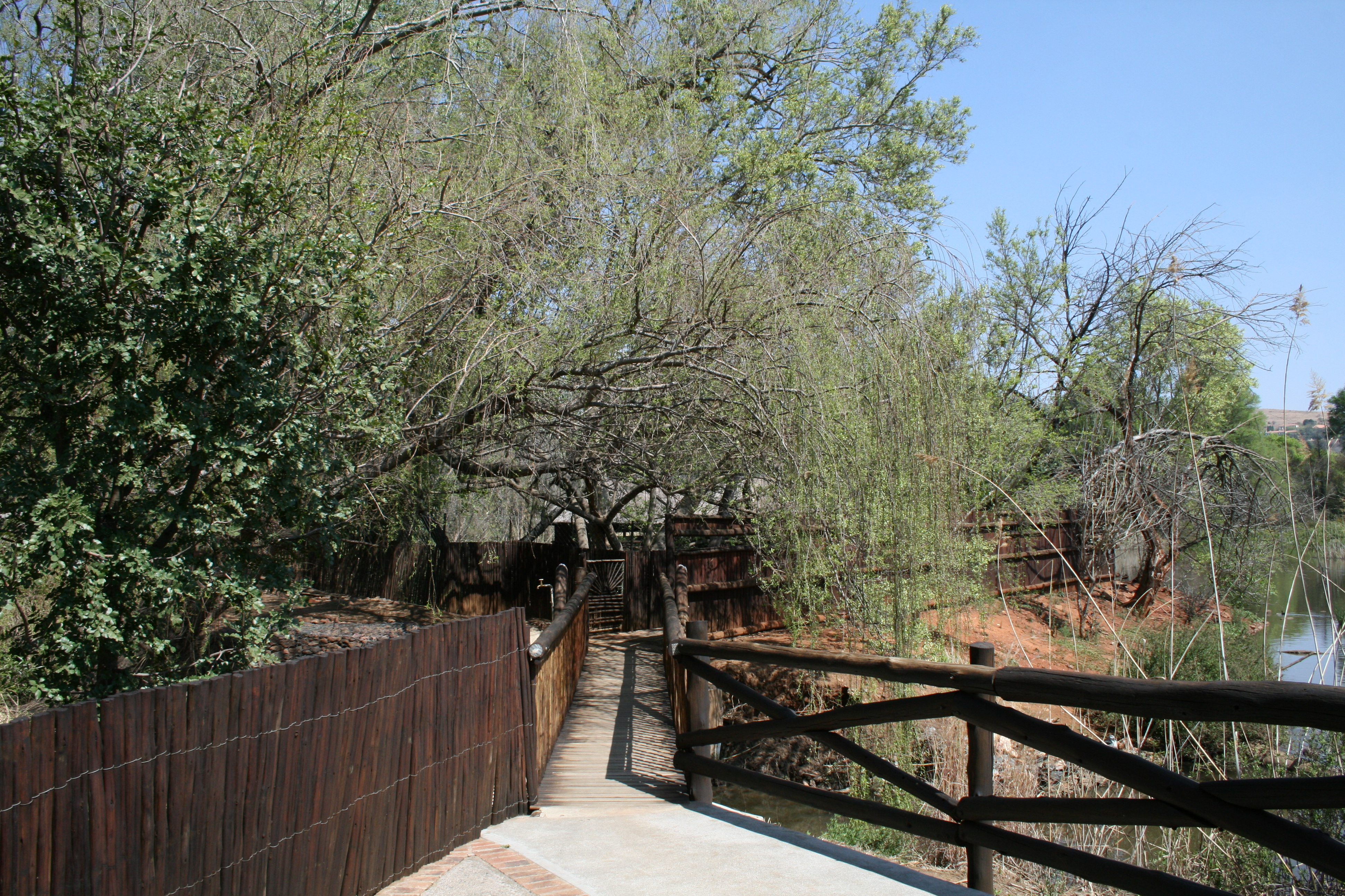 Austin Roberts bird sanctuary, Gauteng South Africa This media shows a South African Protected Site with SAHRA file reference 9/2/258/0035.